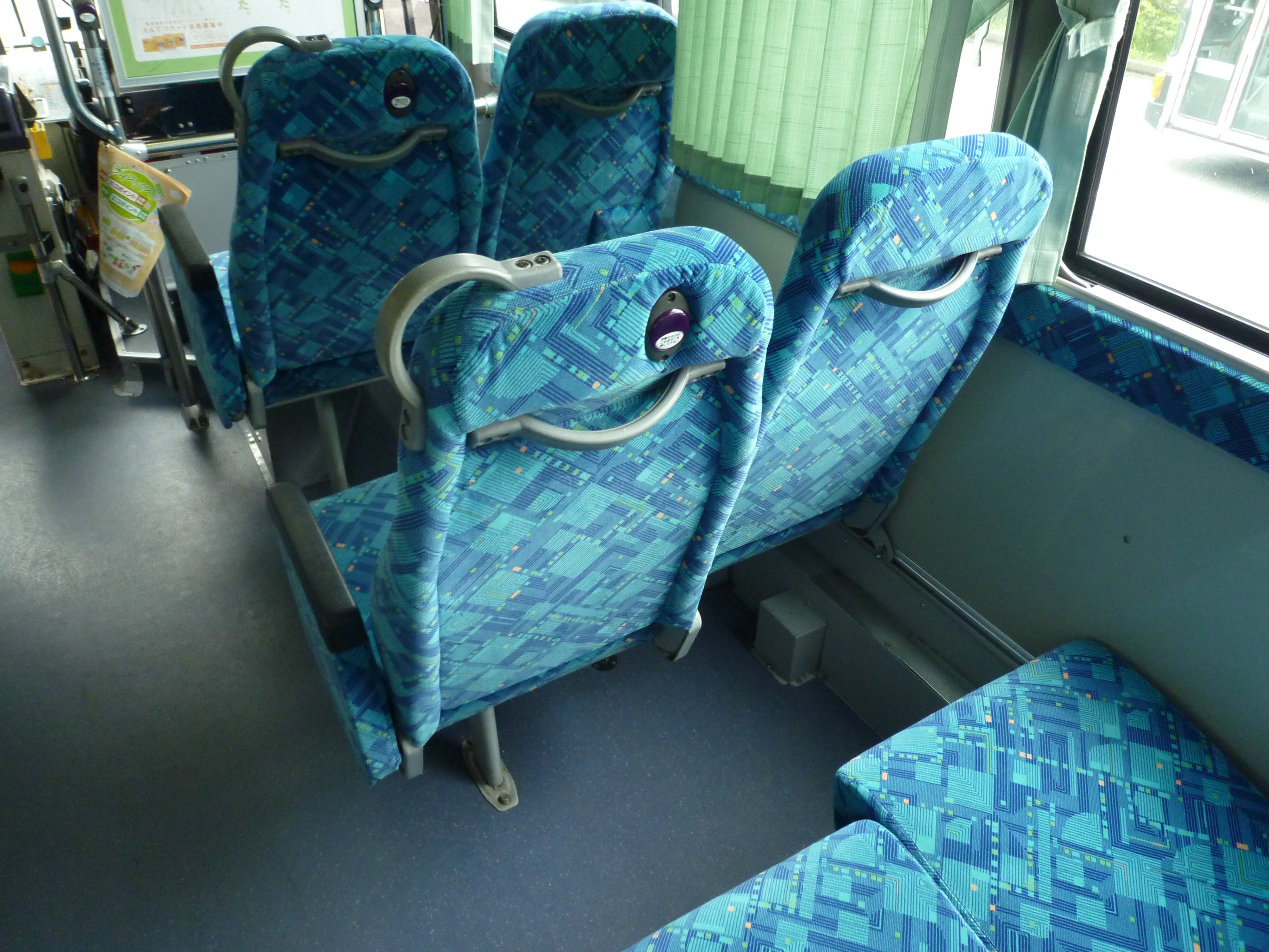 Entetsubus